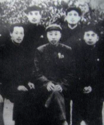 Year 1949,zhao ziyang in Nanyang